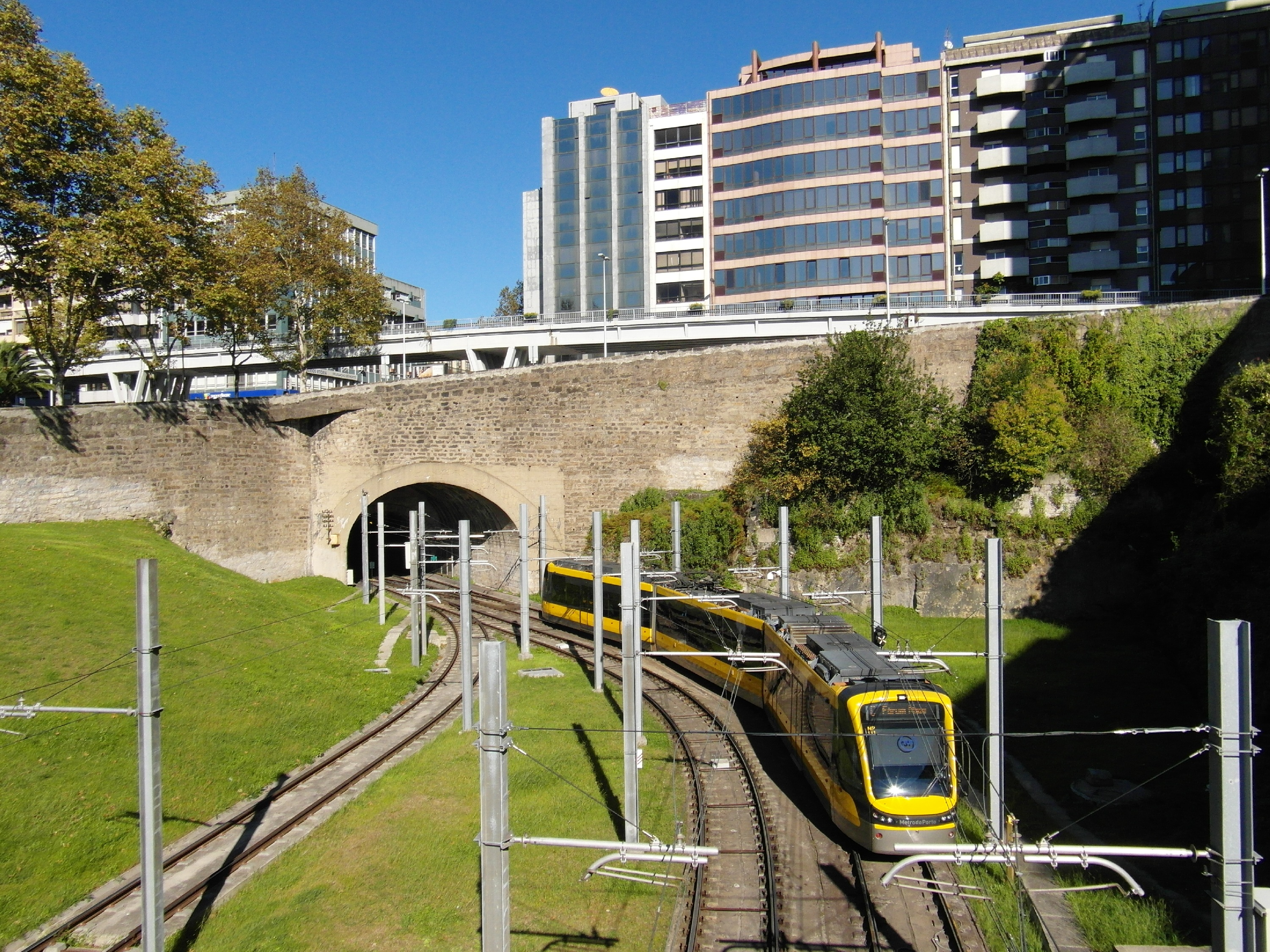 Stadtbahn Porto - Light rail Oporto